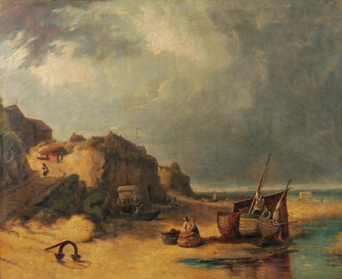 Painting by Robert Ladbrooke